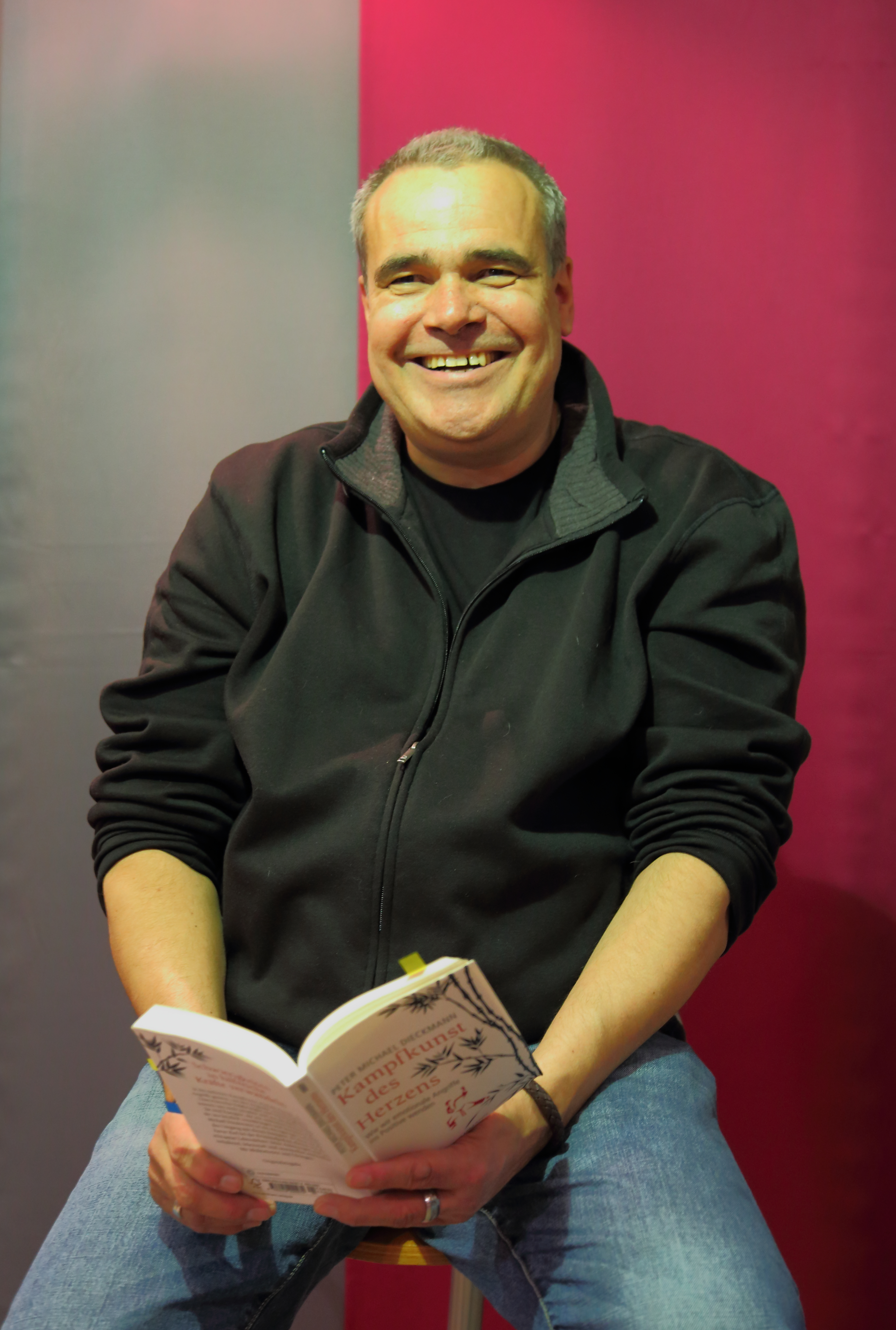 German police officer, Reiki teacher and author Peter Michael Dieckmann during a reading at the bookshop Volk (Buchhandlung Volk) in Recke, Kreis Steinfurt, North Rhine-Westphalia, Germany.